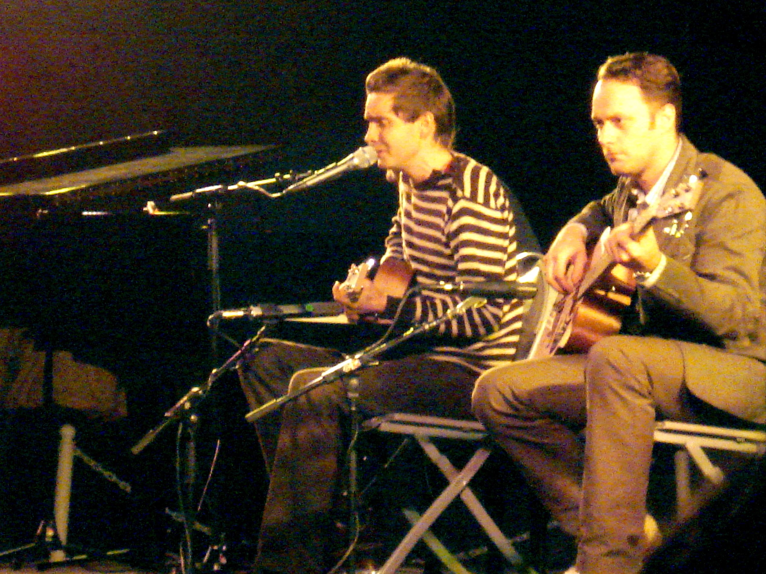 Sigur Rós members Jón Þór Birgisson (left) and Georg Hólm. Kjartan Sveinsson can be seen playing the piano.